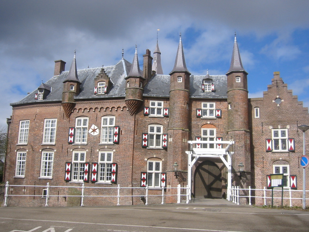 Castle Maurick, Vught, Netherlands